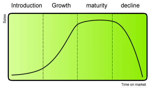 Image of the four major product life cycle stages